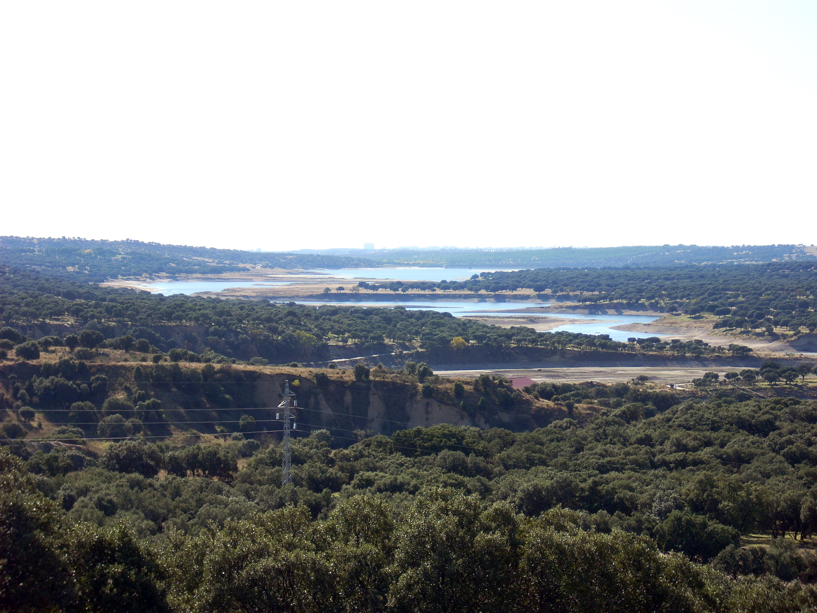 Embalse de el Pardo, formed by the Manzanares river